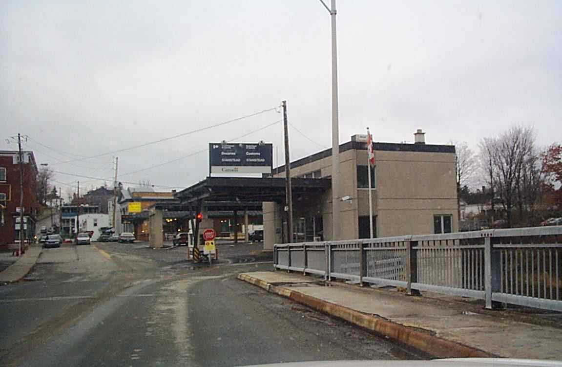 Stanstead Quebec Port of Entry